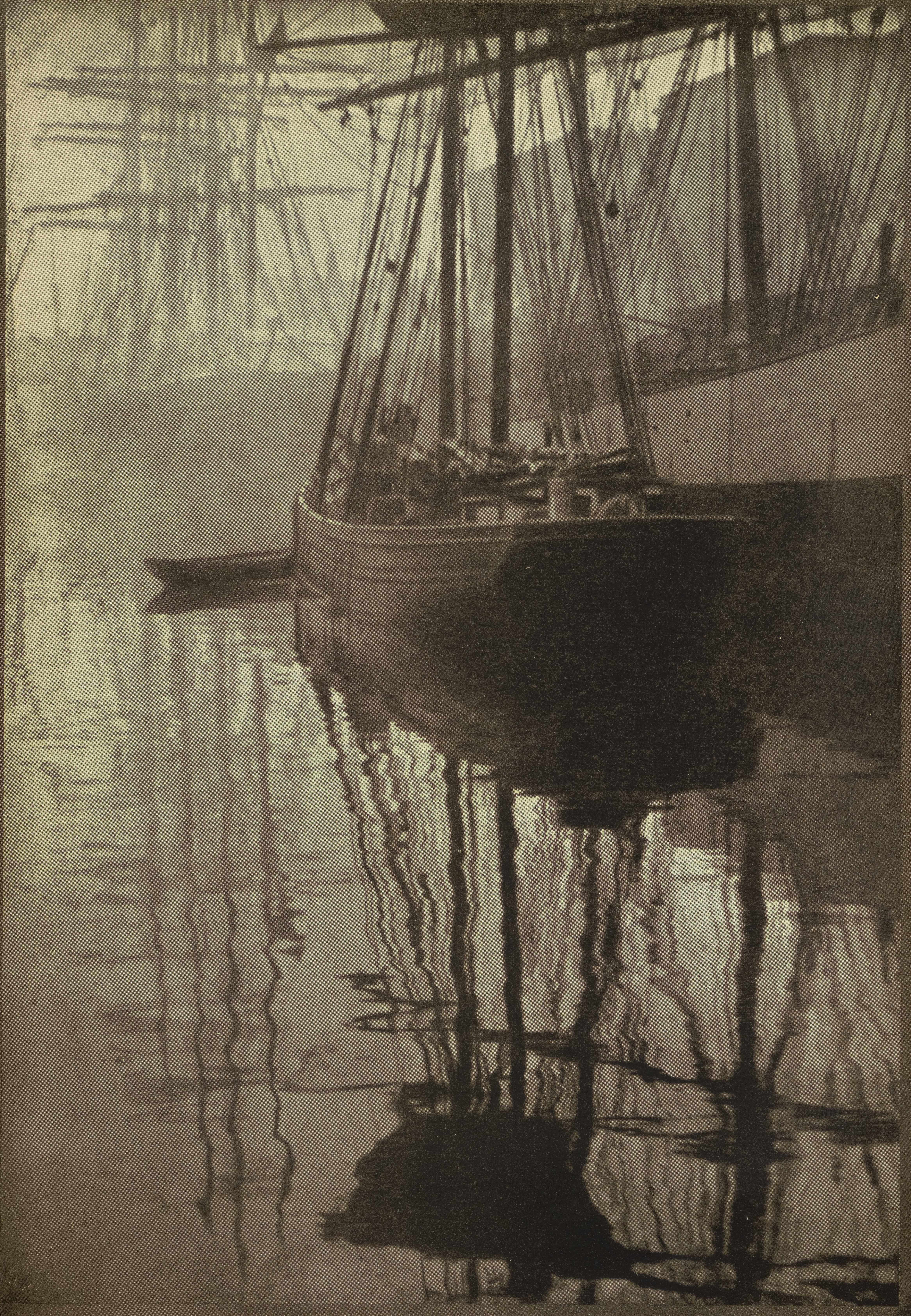 "Spider-webs", a photograph by Alvin Langdon Coburn